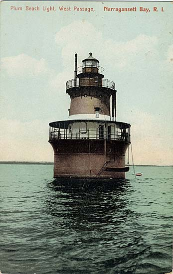 Plum Island Lighthouse in North Kingstown, Rhode Island, as shown on a 1910 post card.